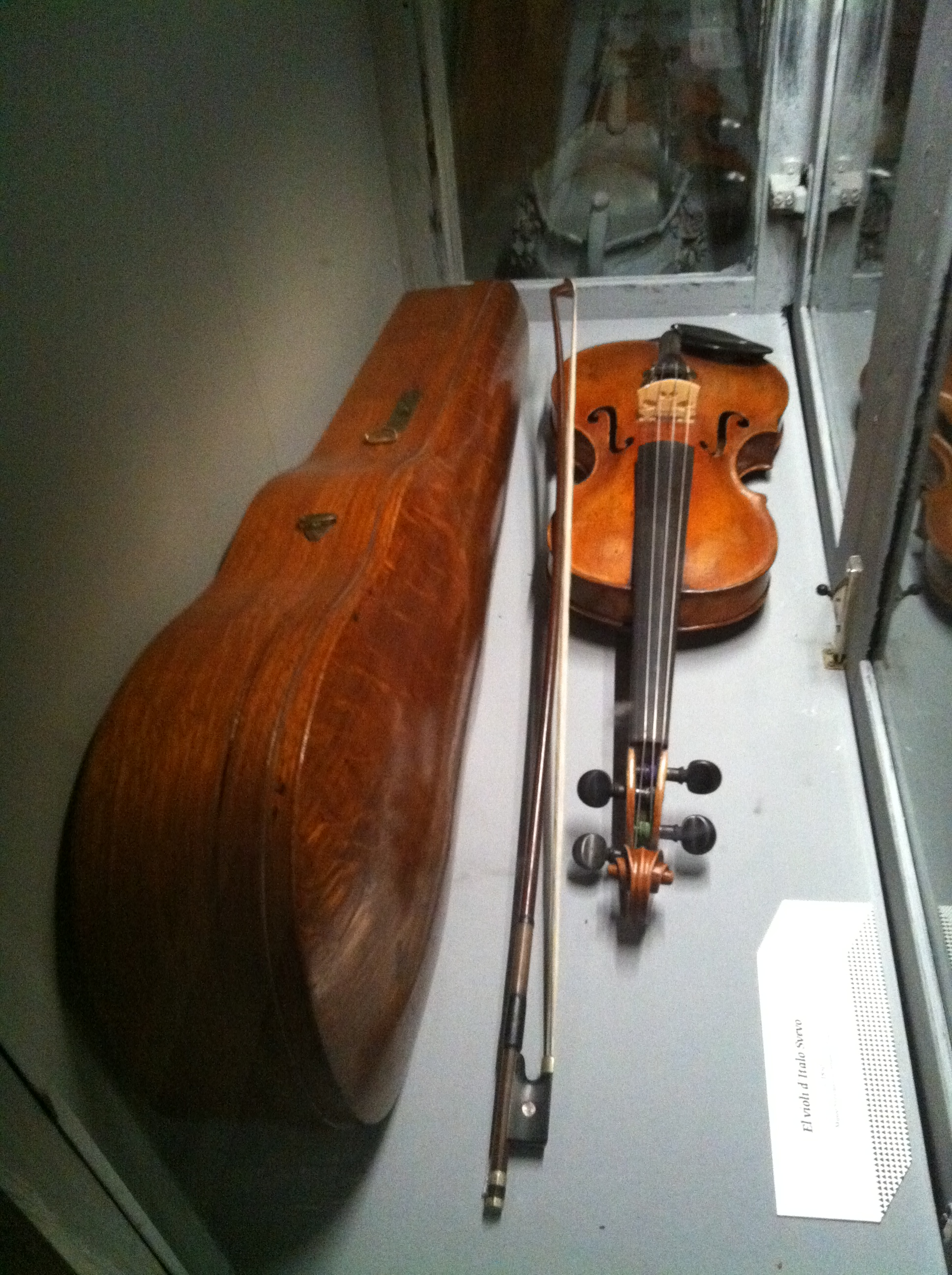 La Trieste de Magris. Exhibit about the Trieste of Claudio Magris, shown at CCCB during 2011 Italo svevo violin shown at an exhibit in Barcelona